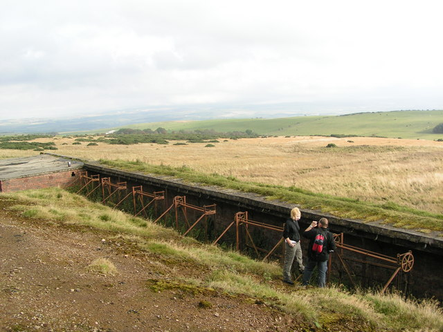 Disused Butts The range here ceased to operate in 1950's, after the closure of Churchill Barracks in Ayr. The range building at the LHS of the picture is marked on the OS map.